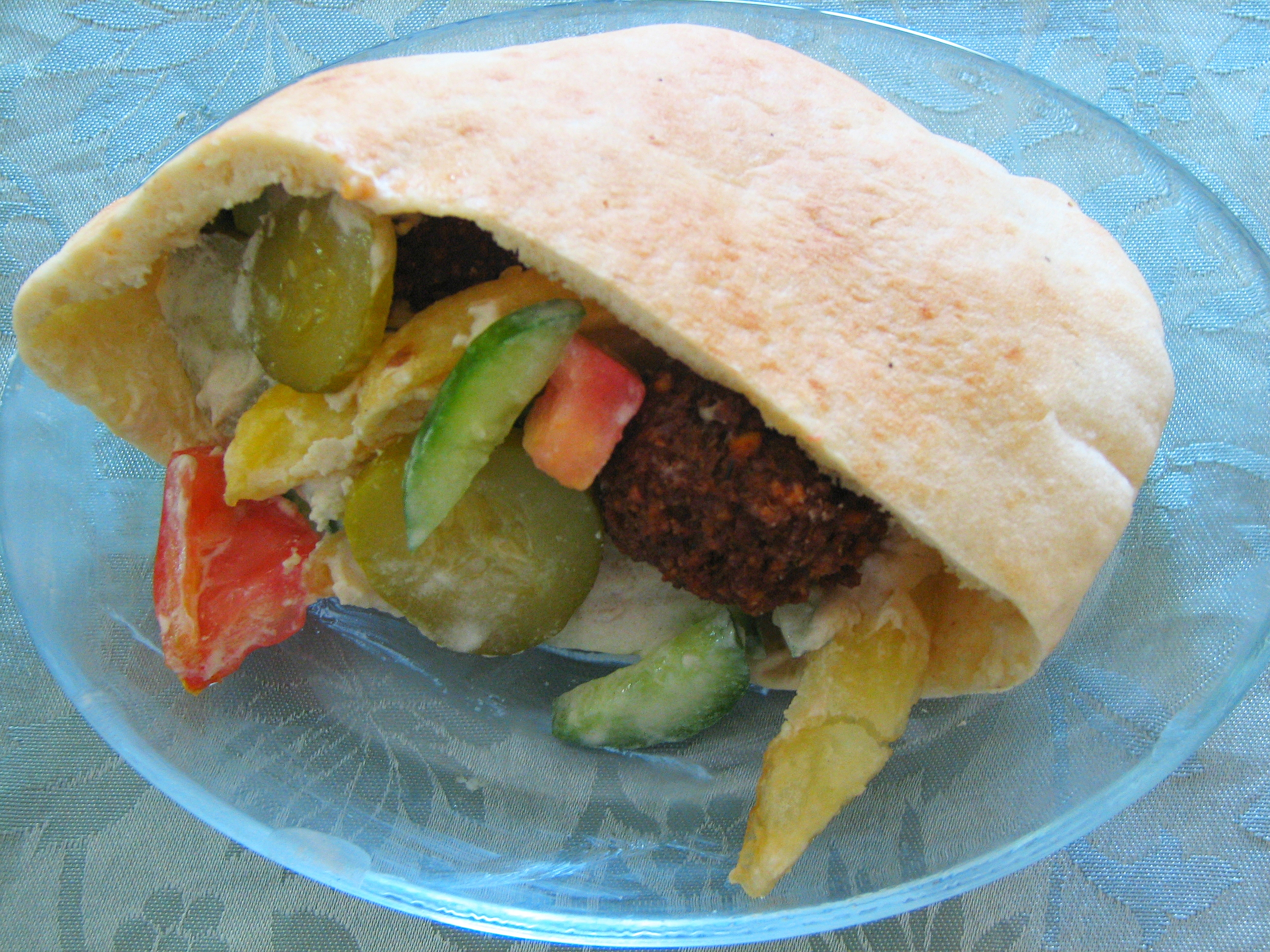 Pita felafel.